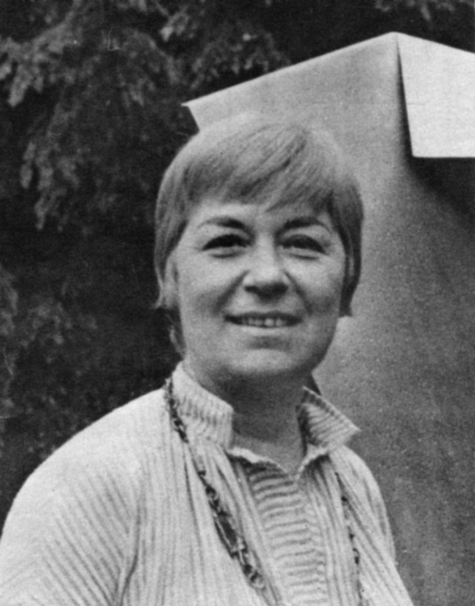 Jacqueline Moss, art historian, standing in front of an outdoor contemporary sculpture, ca. 1980. The photo is scanned from a brochure about a lecture series given by Moss at the Stamford Museum & Nature Center in October and November 1980